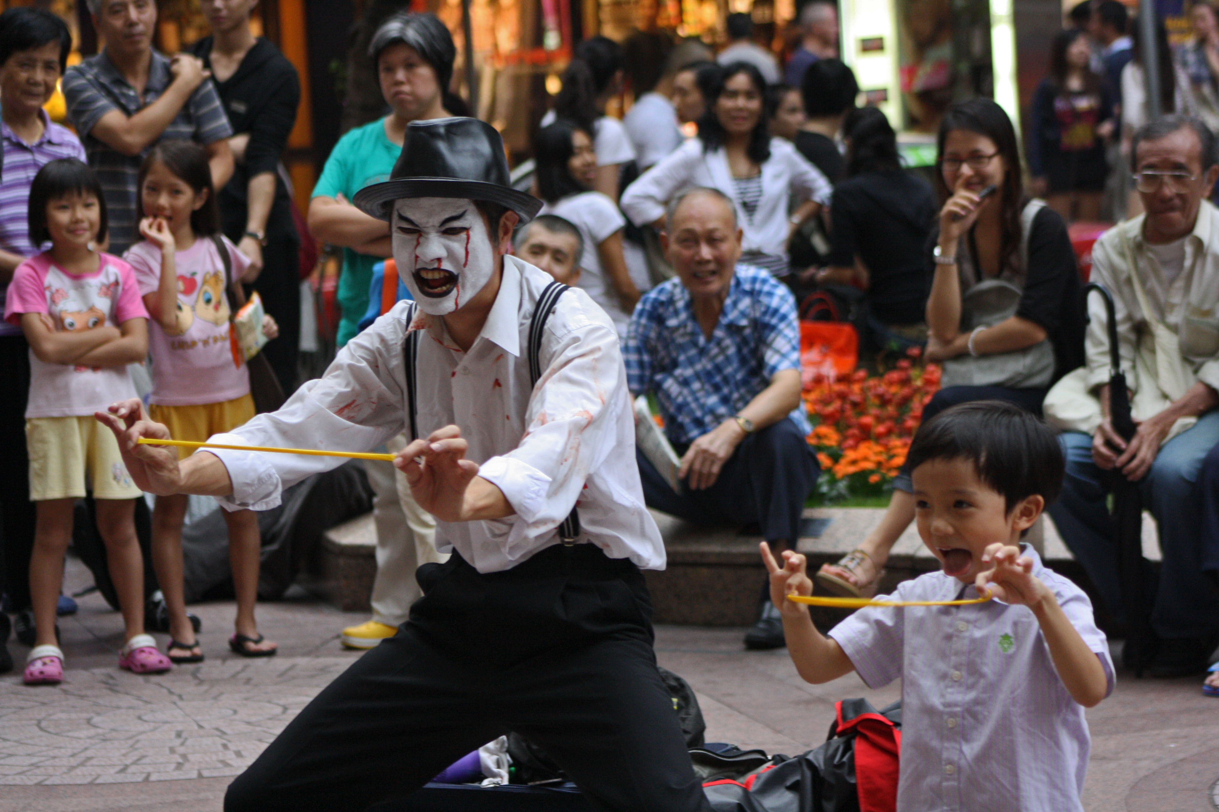 mime putting on a show with the help of a wee volunteer in times square, causeway bay, hong kong. Please let me know if you see yourself in any of my pictures... or if you'd like to.